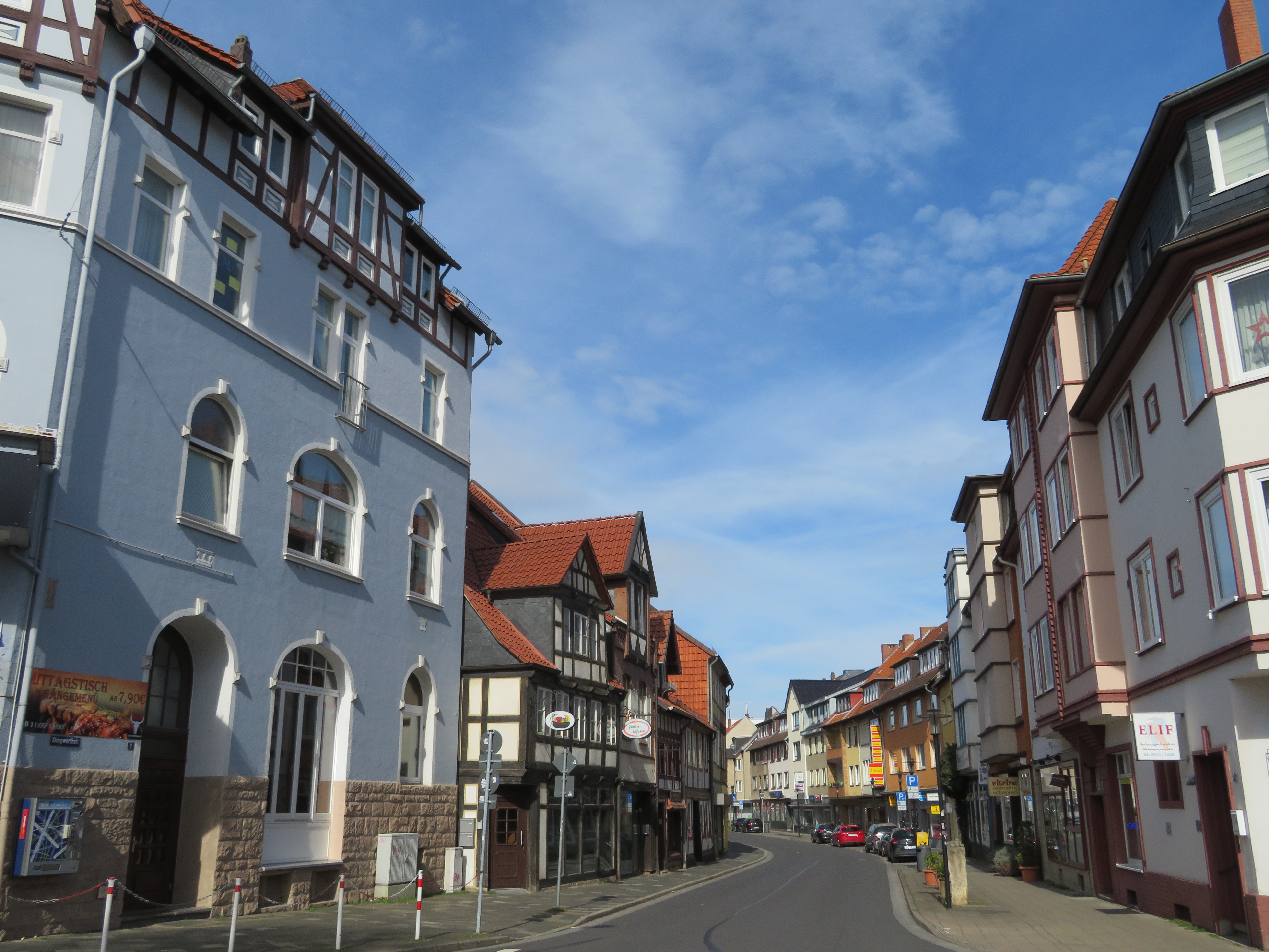 Dingworth Street, Moritzberg, City of Hildesheim, Germany